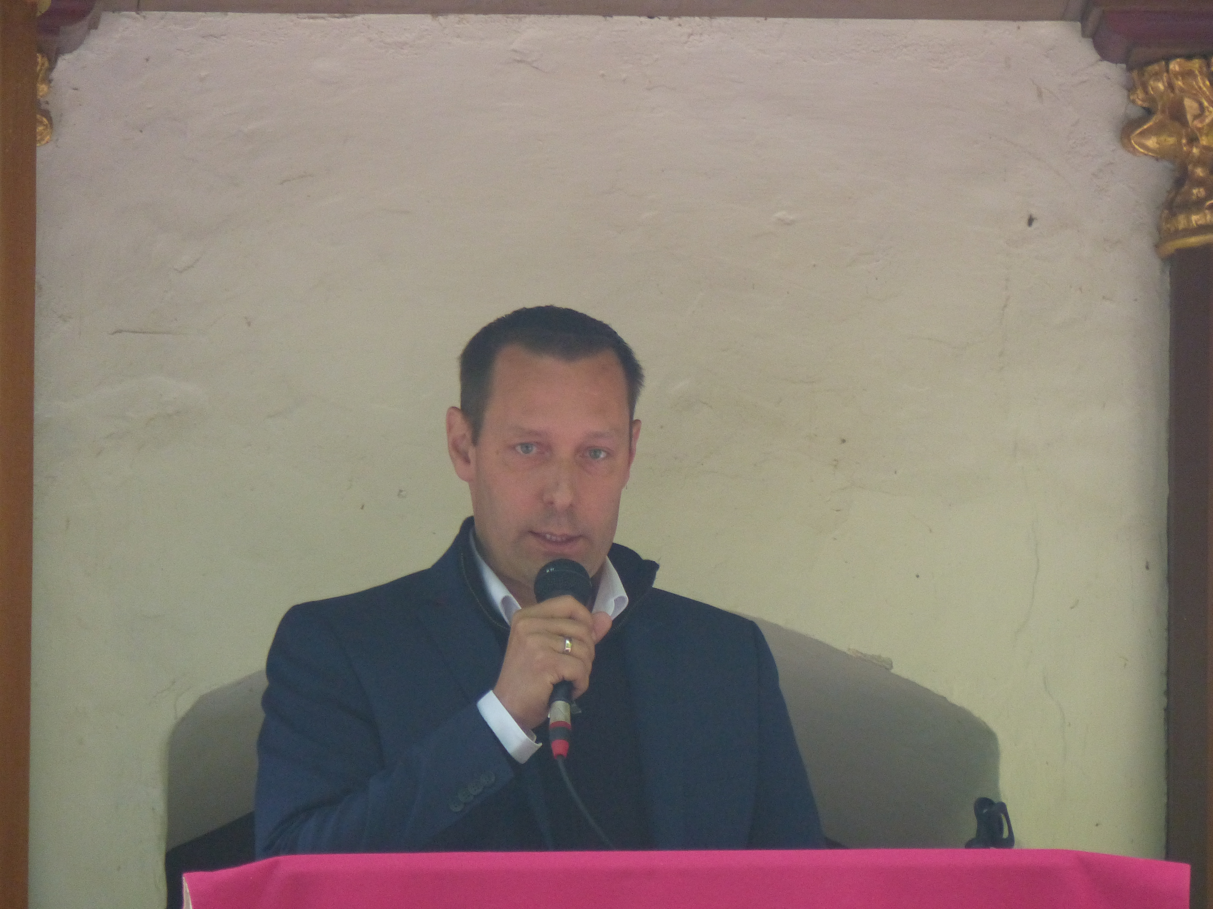 Armin Kroder, a franconian local politician and jurist.